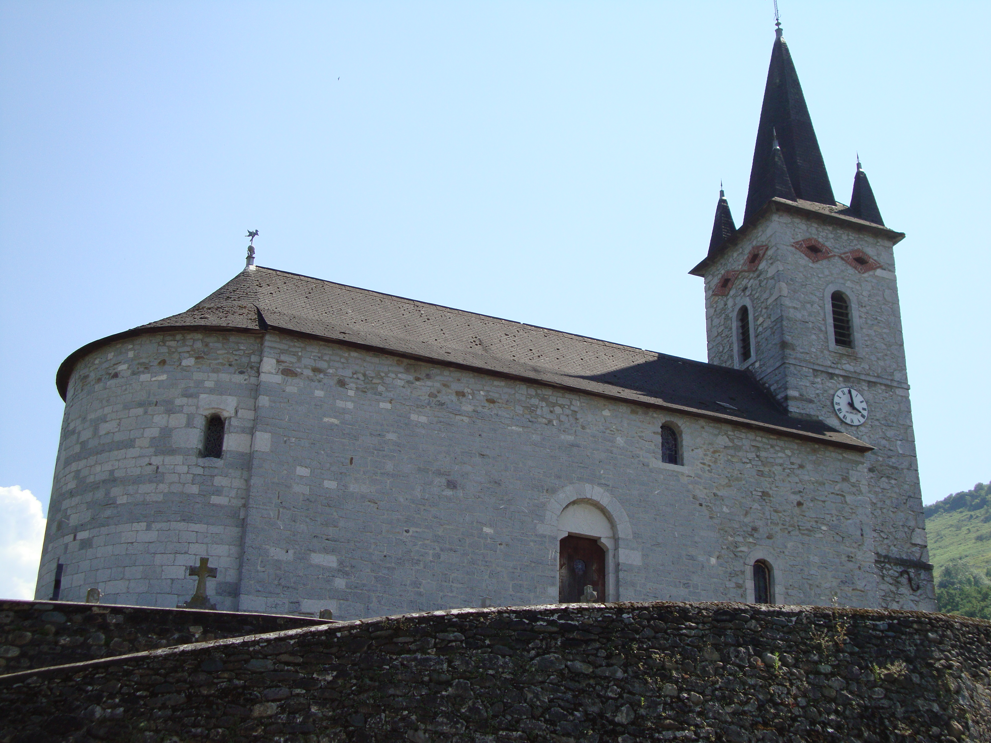 Lichans (Lichans-Sunhar, Pyr-Atl, Fr) church